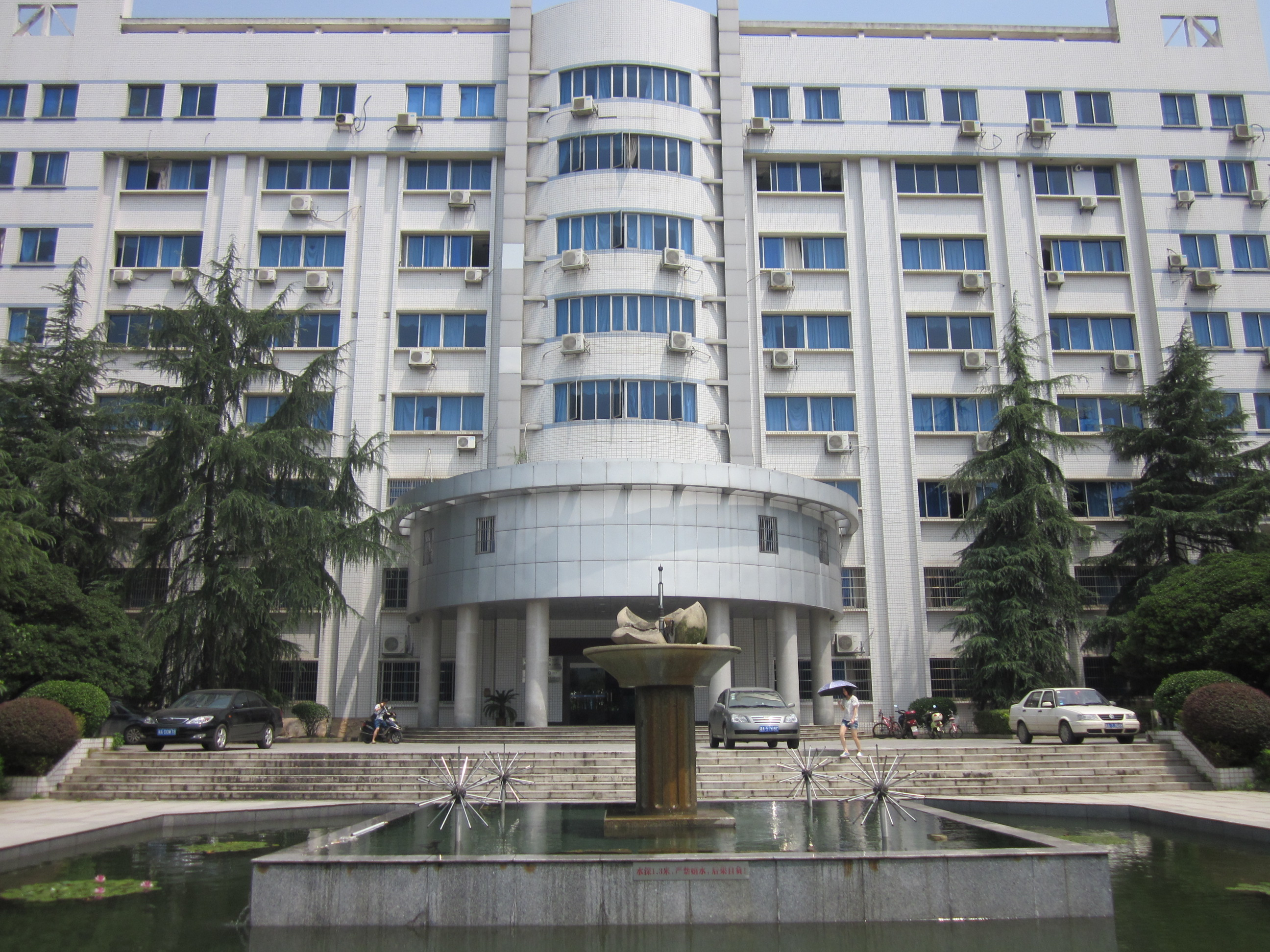 Changsha University (CCSU